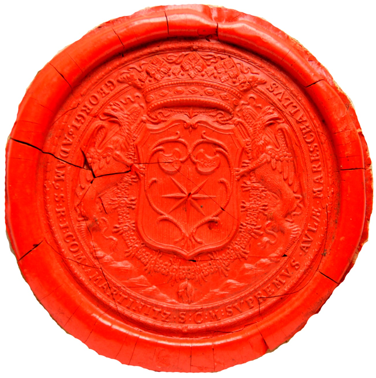 Wafer of Imperial chambers counsel in Prag